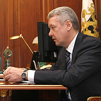 Sergey Sobyanin, Russian politician